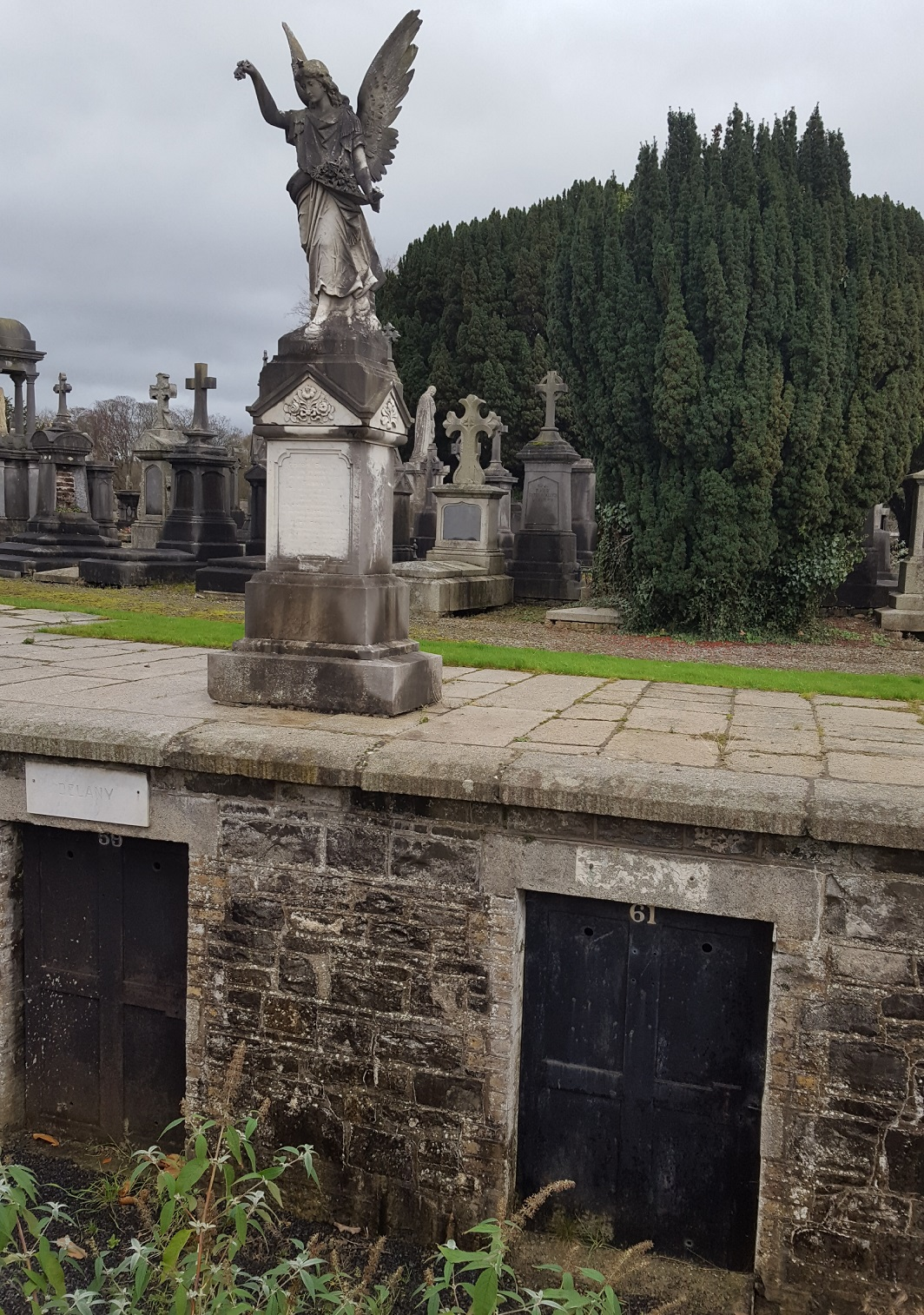 the burial place of Father Aloysius (or Luigi) Gentili is in Vault number 61 in the O'Connell Circle, Glasnevin Cemetery